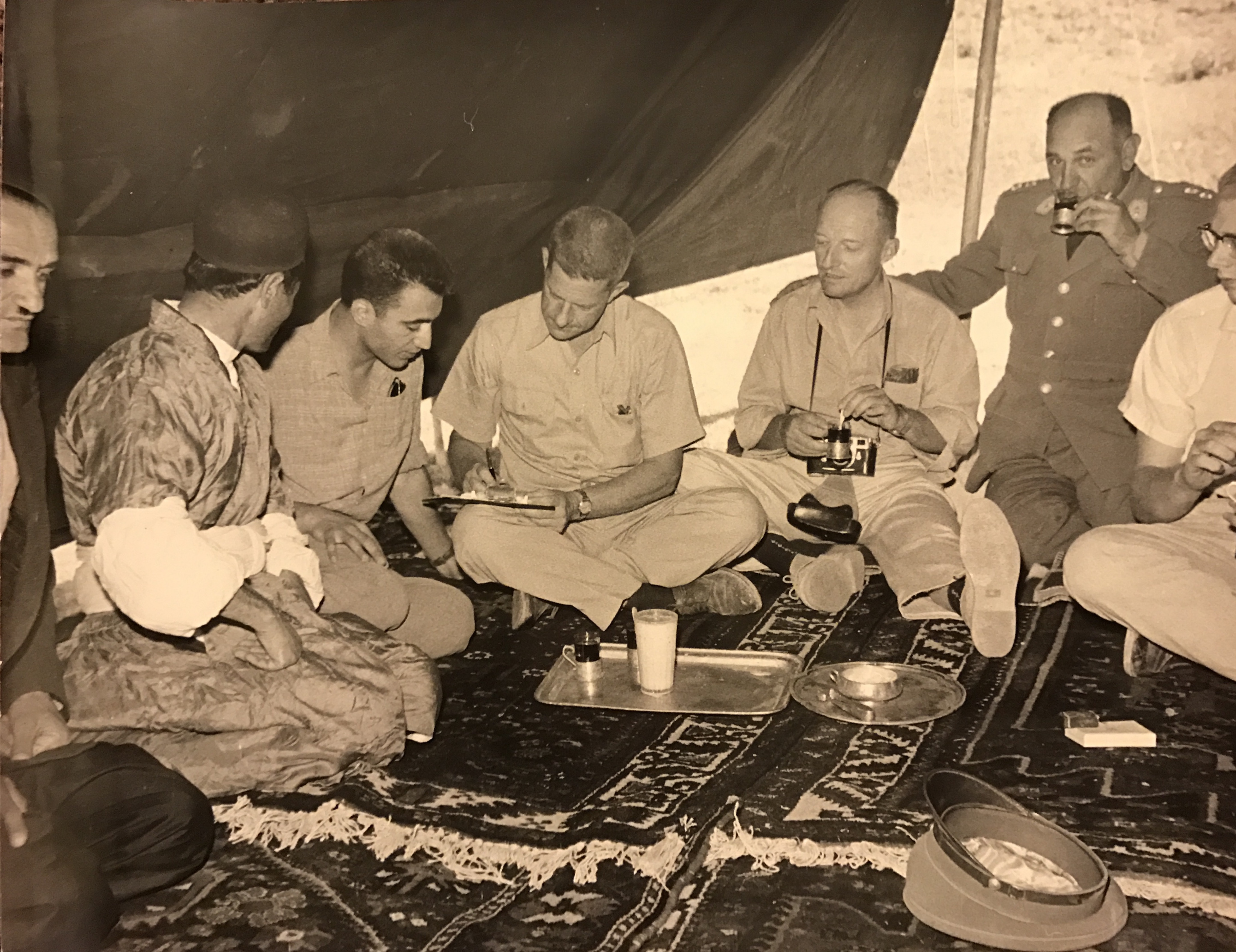 Troops inner circle